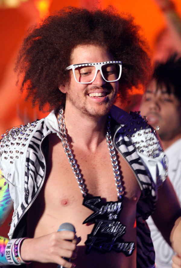 LMFAO, Debit Mastercard, Take 40, 2011.